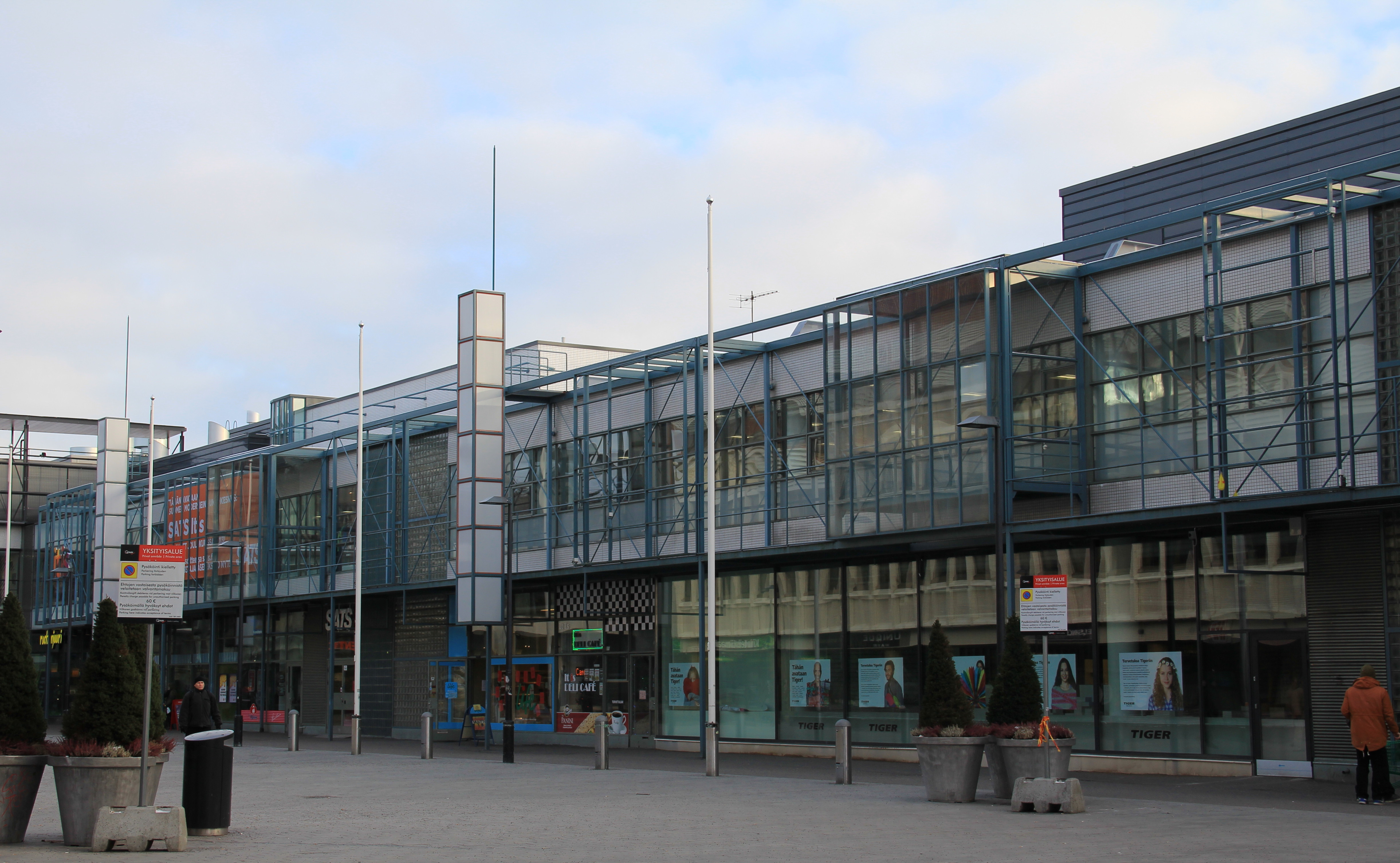 Shopping mall Itis in Helsinki, Finland. Photo taken from Tallinnanaukio. This oldest part of the mall was completed in 1984, it was designed by architect Erkki Kairamo.